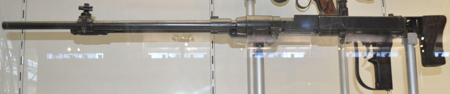 7.7 mm Type 89 (modified single) machine gun on display at the Steven F. Udvar-Hazy Center